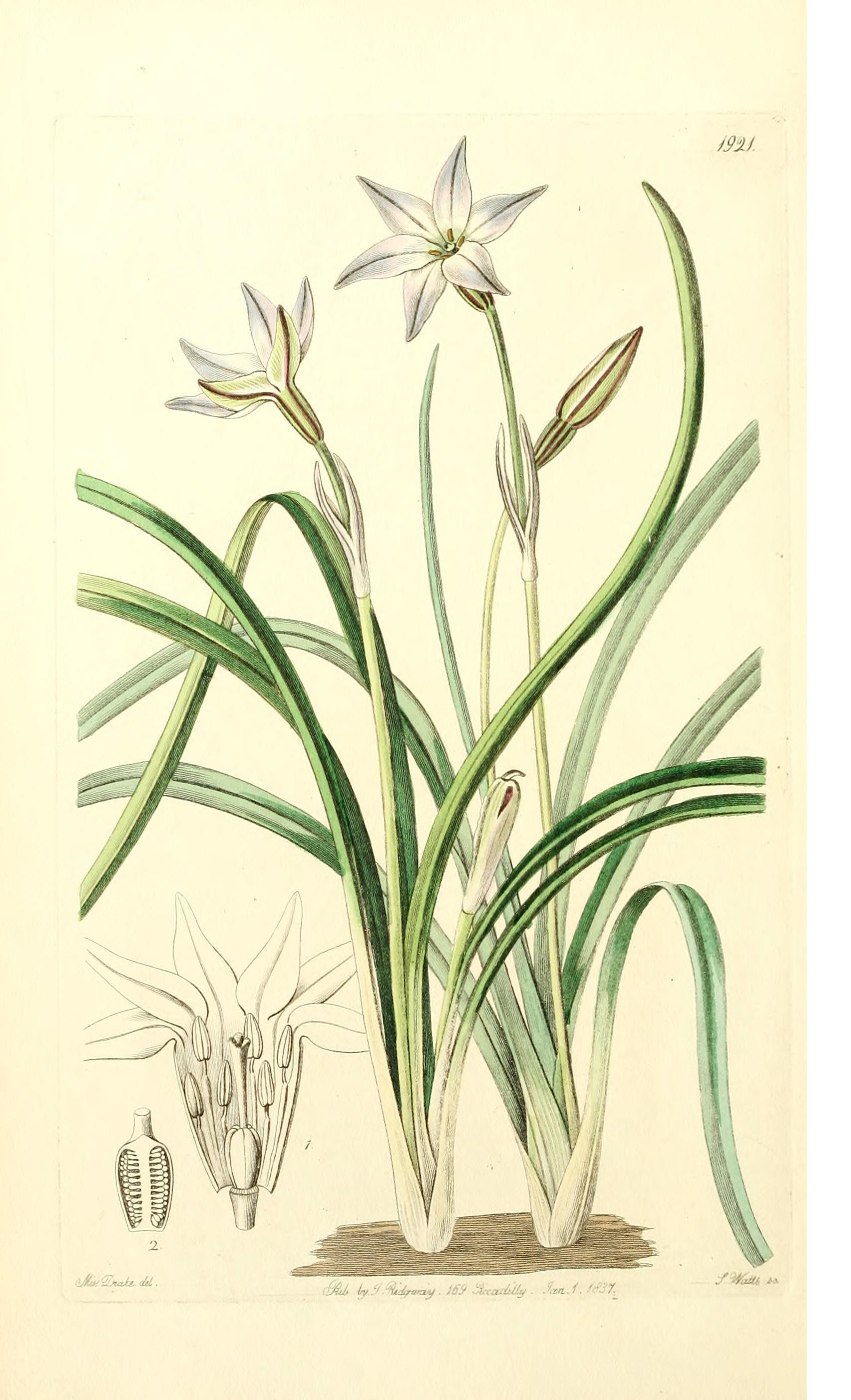 Tristagma uniflorum (as Triteleia uniflorum), John Lindley in Botanical Register vol. 23: t. 1921 (1837)